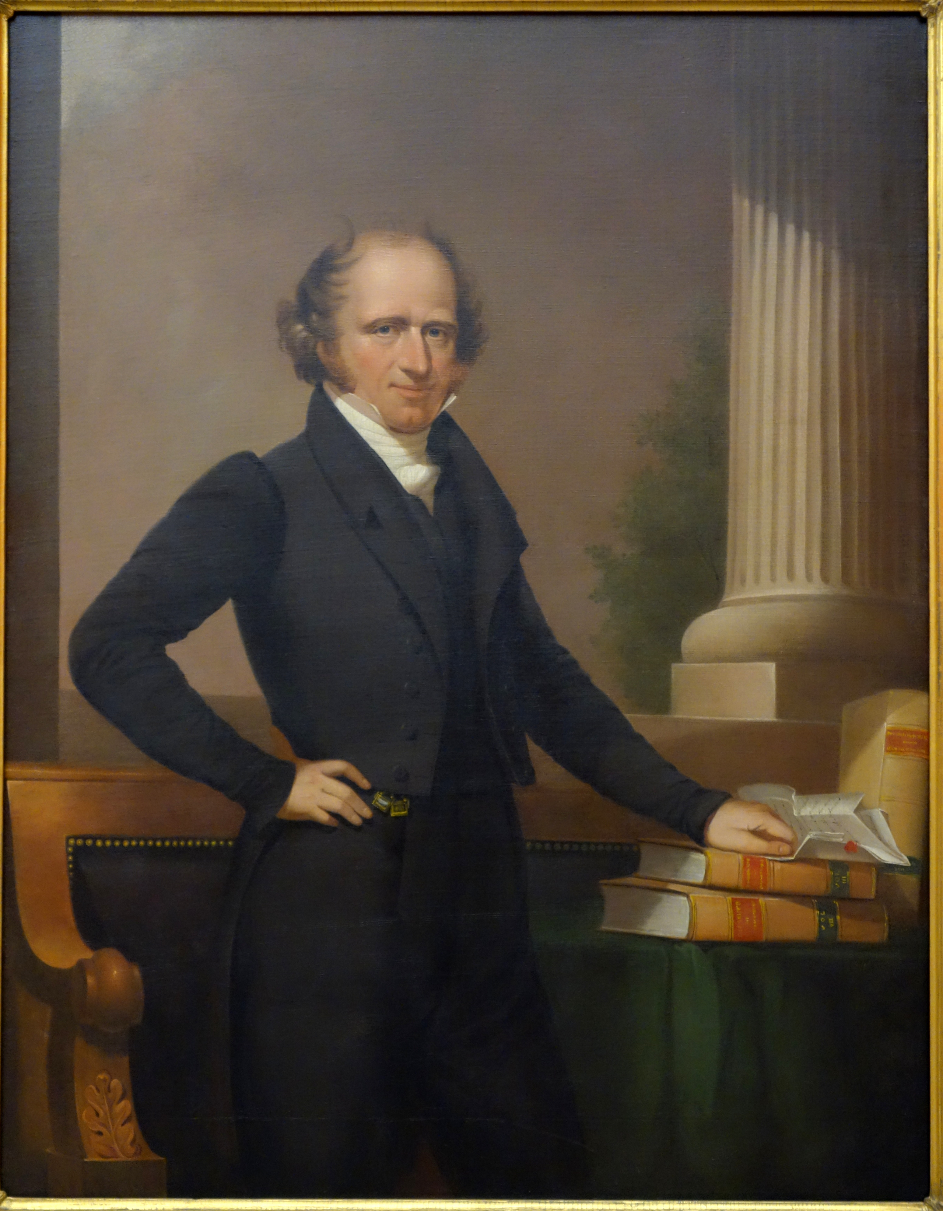 Portrait of Martin Van Buren (1782-1862). Exhibit in the Albany Institute of History and Art, Albany, New York, USA.